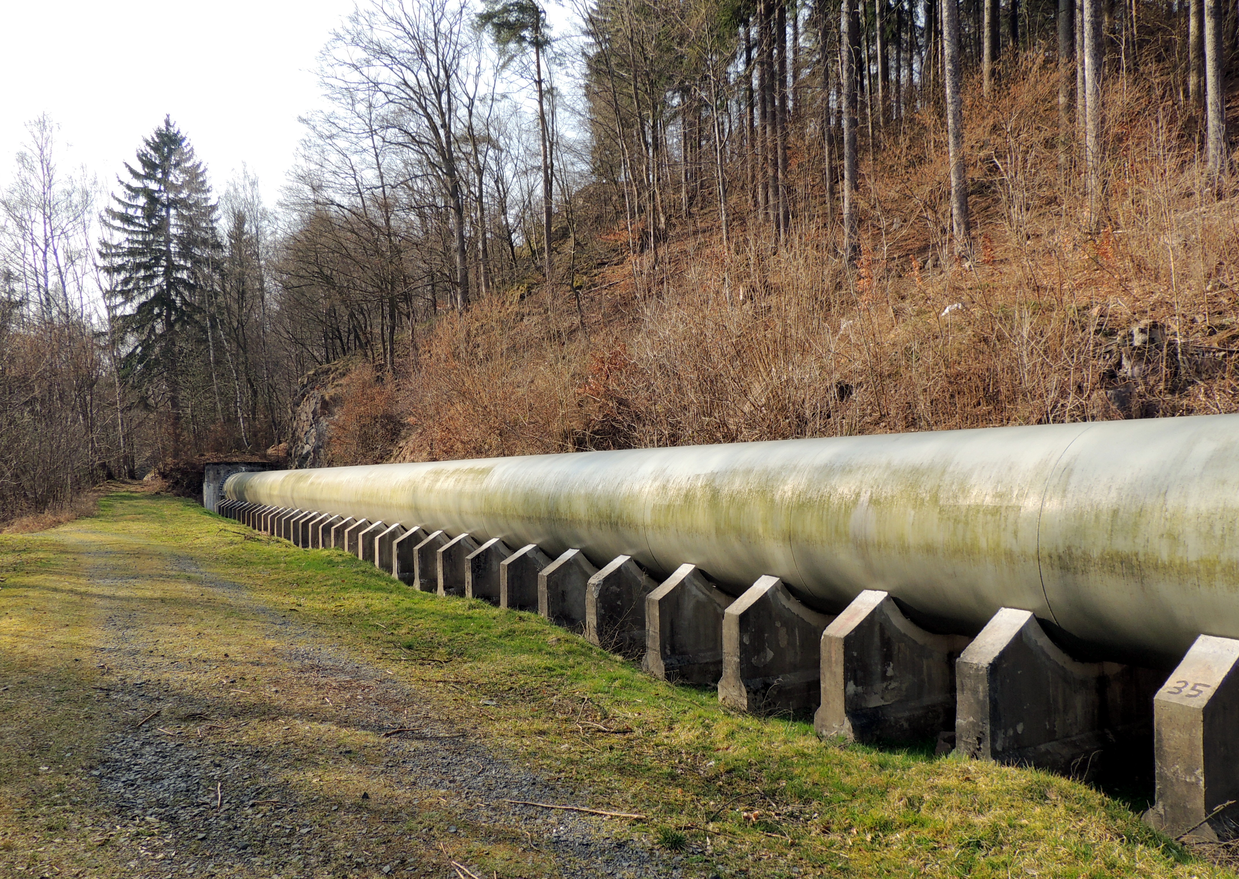 Sečská dam. Piping of the water supply to the power plant, on the left bank of the river Chrudimka. The power station is 1.2 km away from the dam. The original pipeline made in 1941 to 1943 was made of wooden veneer and was lined with steel hoops. In 2010 was to replaced by pipelines from steel (photo). Photo location: Czech Republic, Pardubice Region, town Seč, Seč Dam, "Kameničská" highlands.